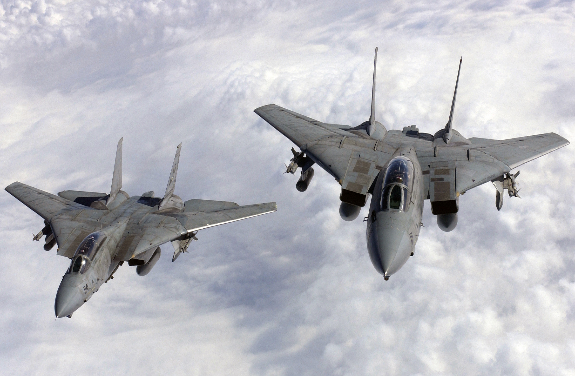 A pair of U.S. Navy Grumman F-14A Tomcat aircraft from Fighter Squadron VF-211 Fighting Checkmates in flight over Iraq in 2003. VF-211 was assigned to Carrier Air Wing 1 (CVW-1) aboard the aircraft carrier USS Enterprise (CVN-65) for a deployment to the Mediterranean Sea and the Indian Ocean from 28 August 2003 to 29 February 2004. After this deployment VF-211 converted to the Boeing F/A-18F Super Hornet and was redesignated VFA-211.